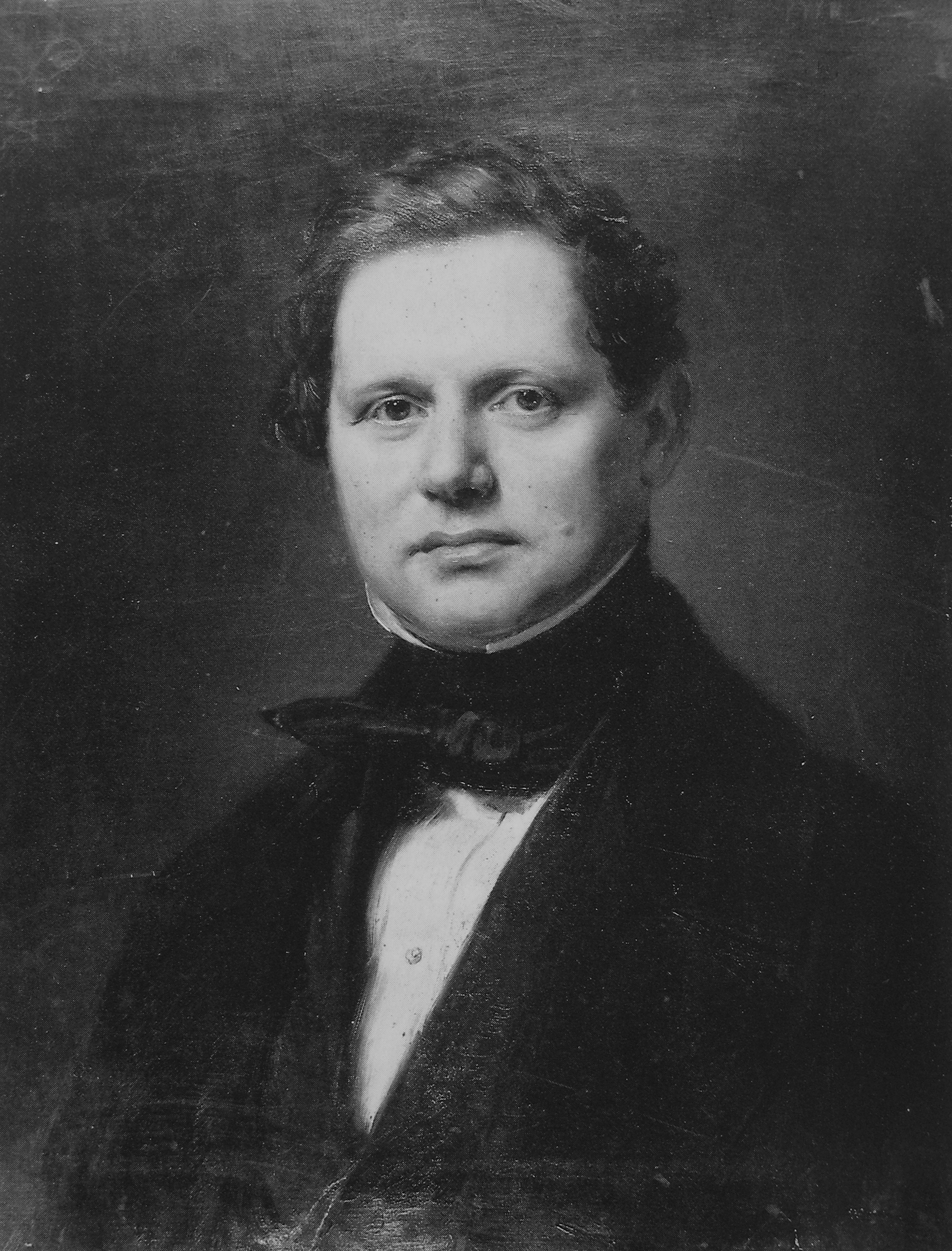 Portrait of the painter's younger brother and physicist Heinrich Gustav Magnus